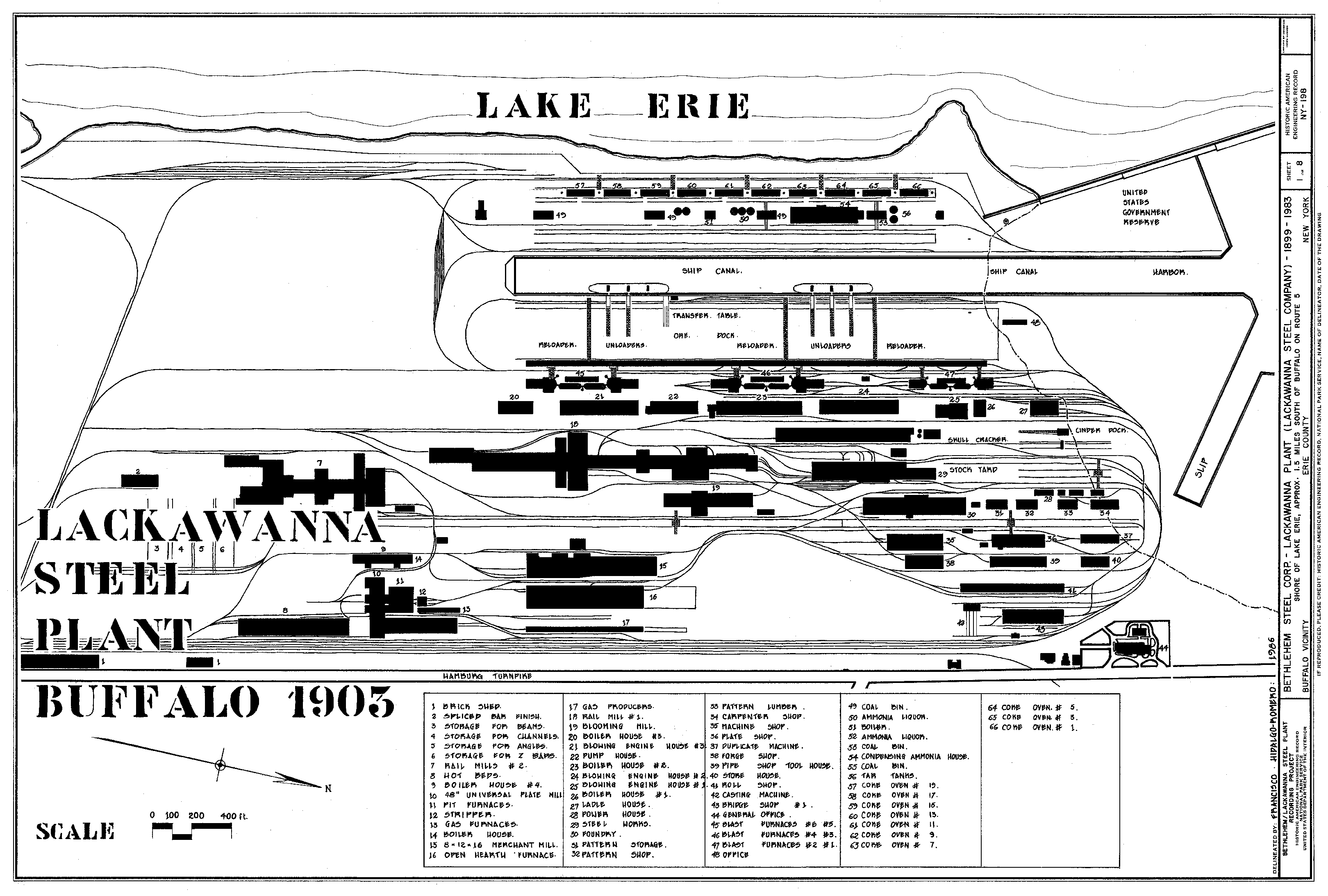 Drawing of the layout of the Lackawanna Steel Company plant, Route 5 on Lake Erie, West Seneca, Erie County, New York, in 1903.